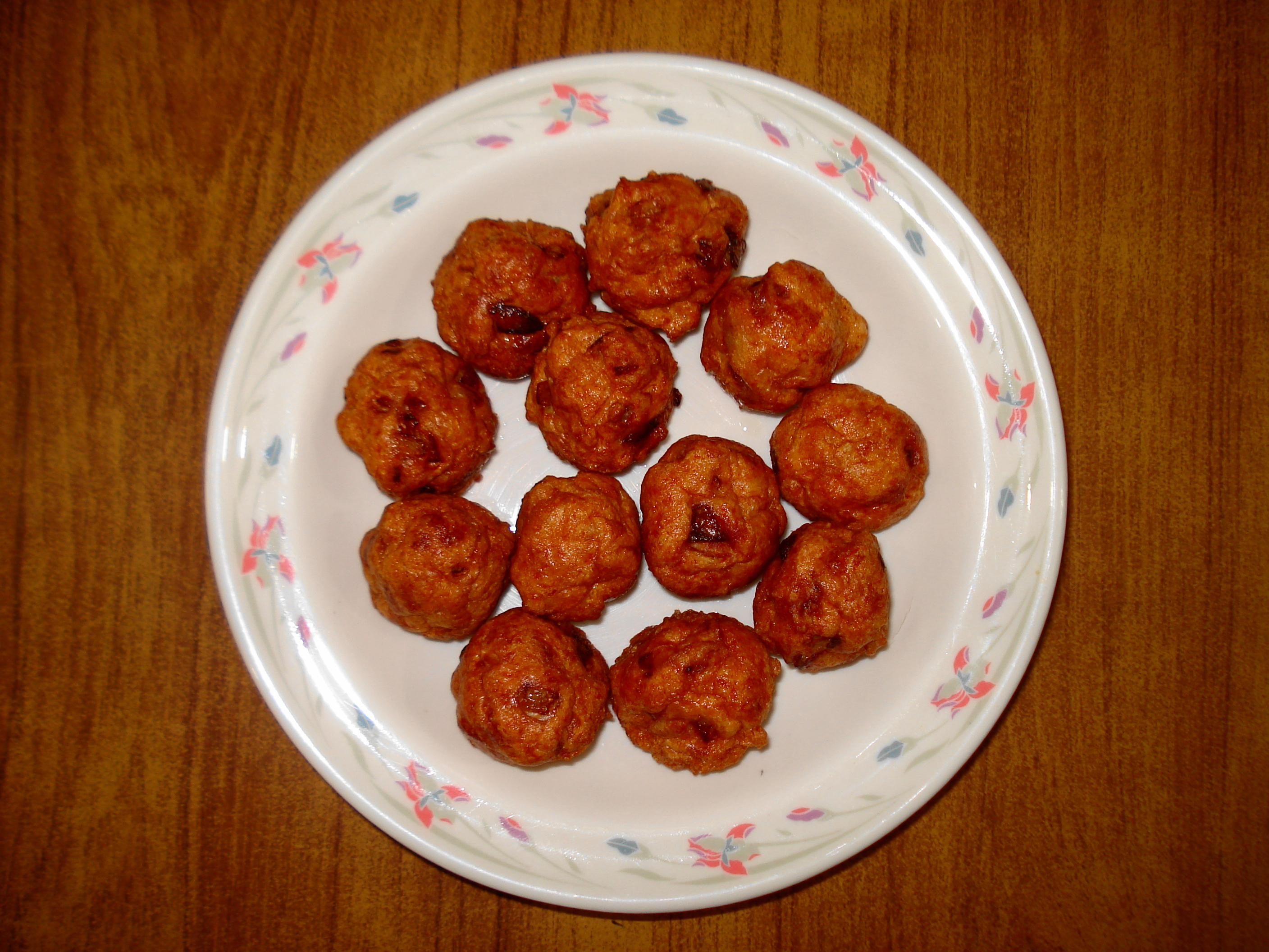 Chinese Chicken Manchurian